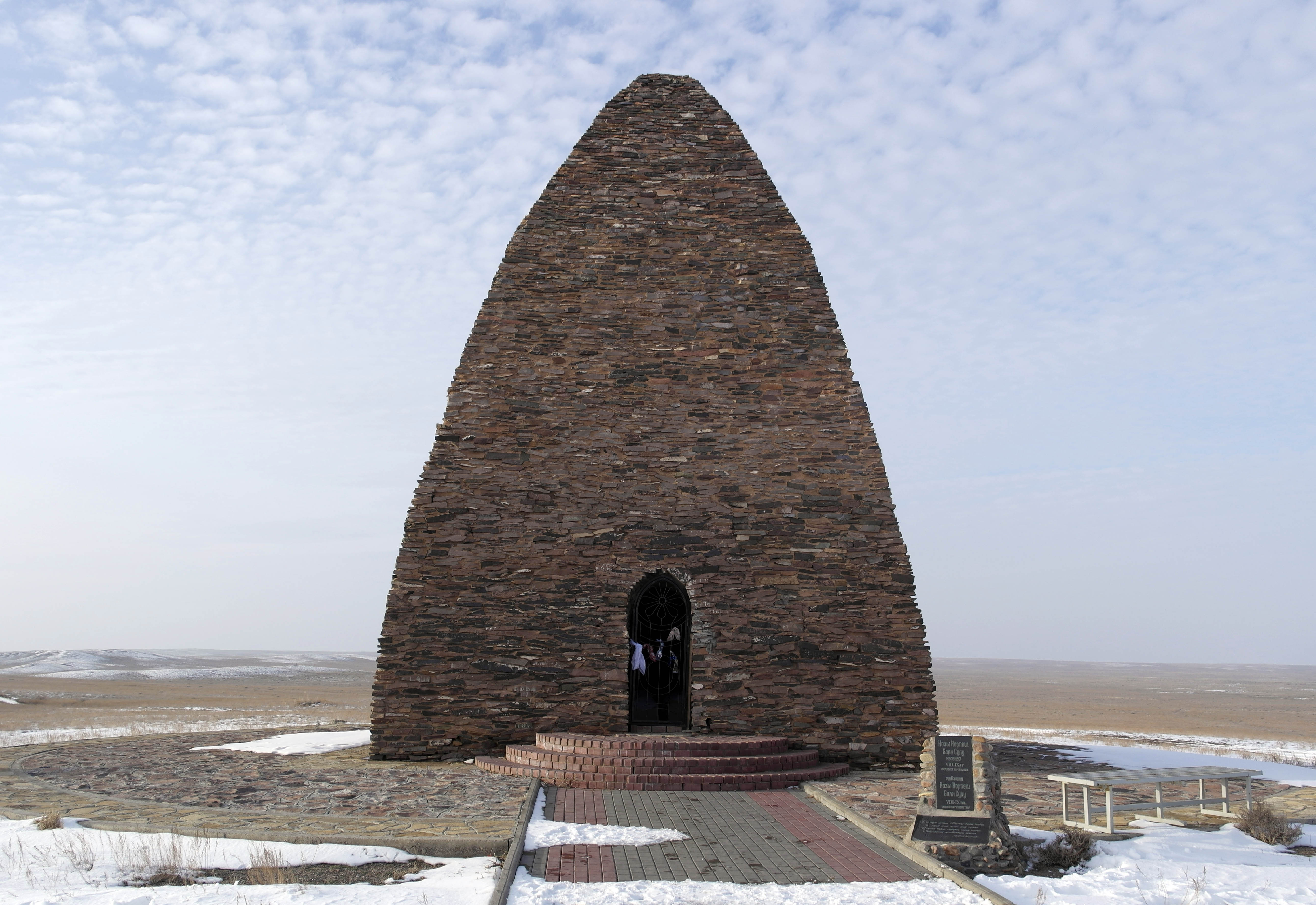 Kozy Korpesh — Bayan Sulu mausoleum The medieval kazakh mausoleum